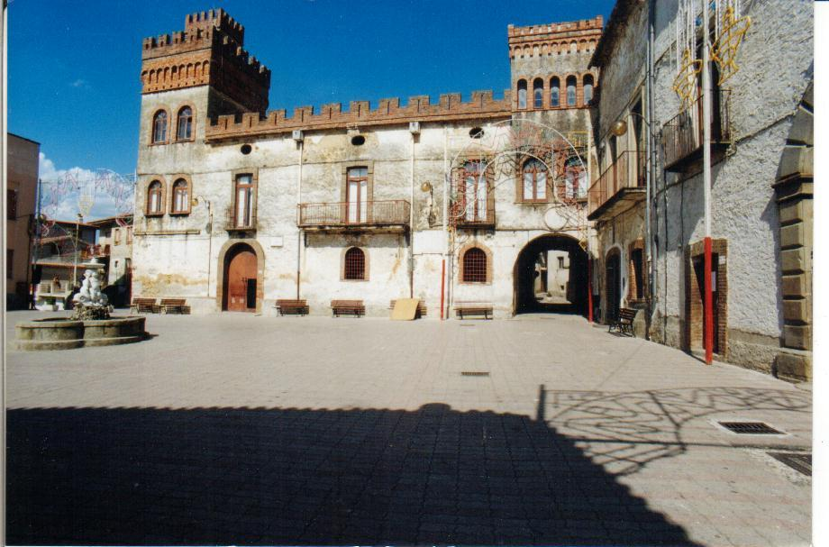 Author: Trond Ramsvik